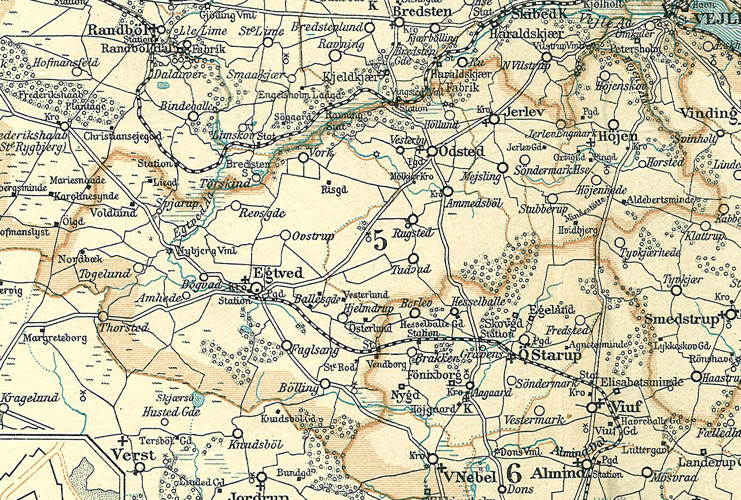 Map of Vejle County in Denmark